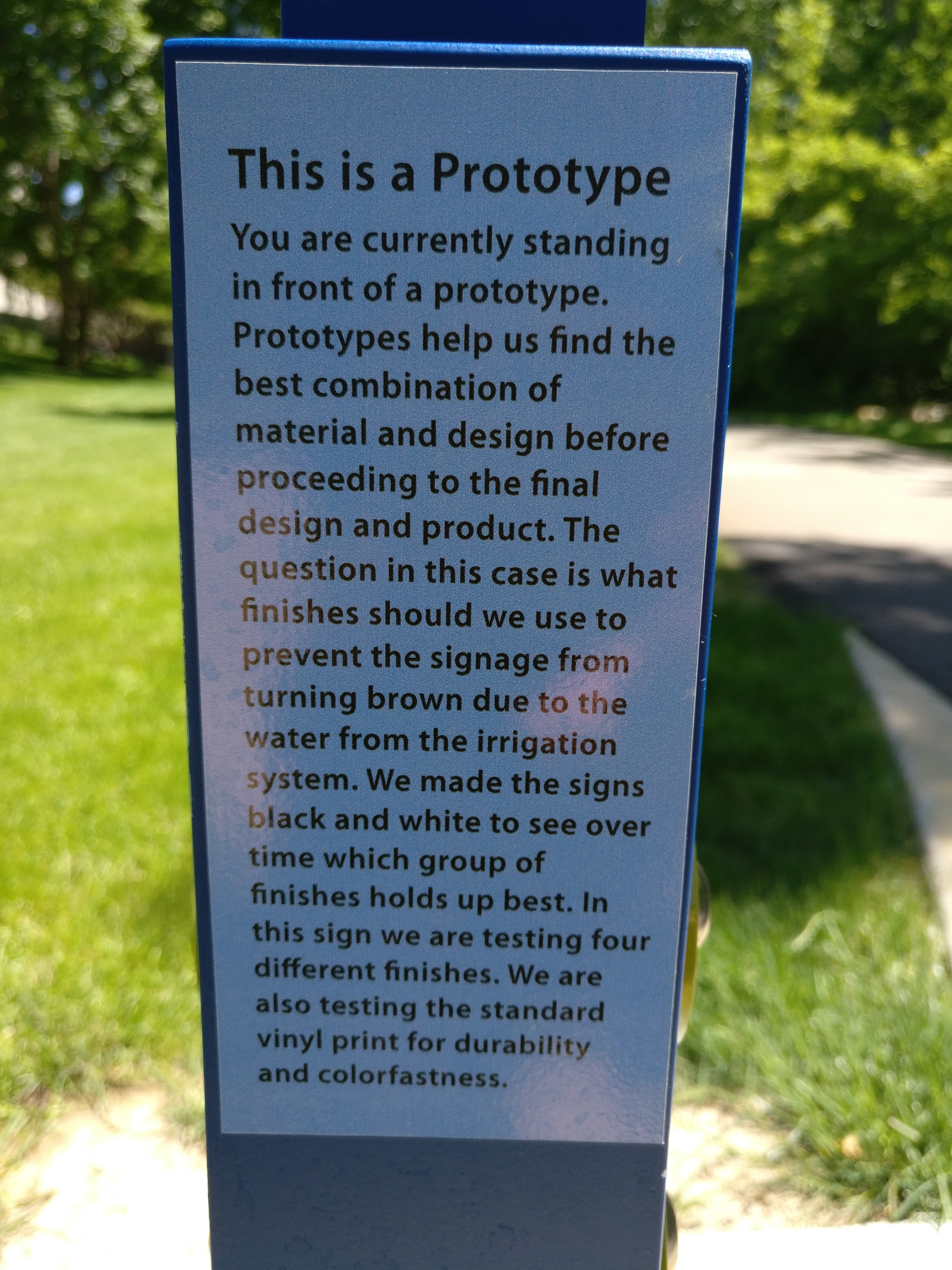 A sign explaining prototype signage on the Boise Greenbelt.